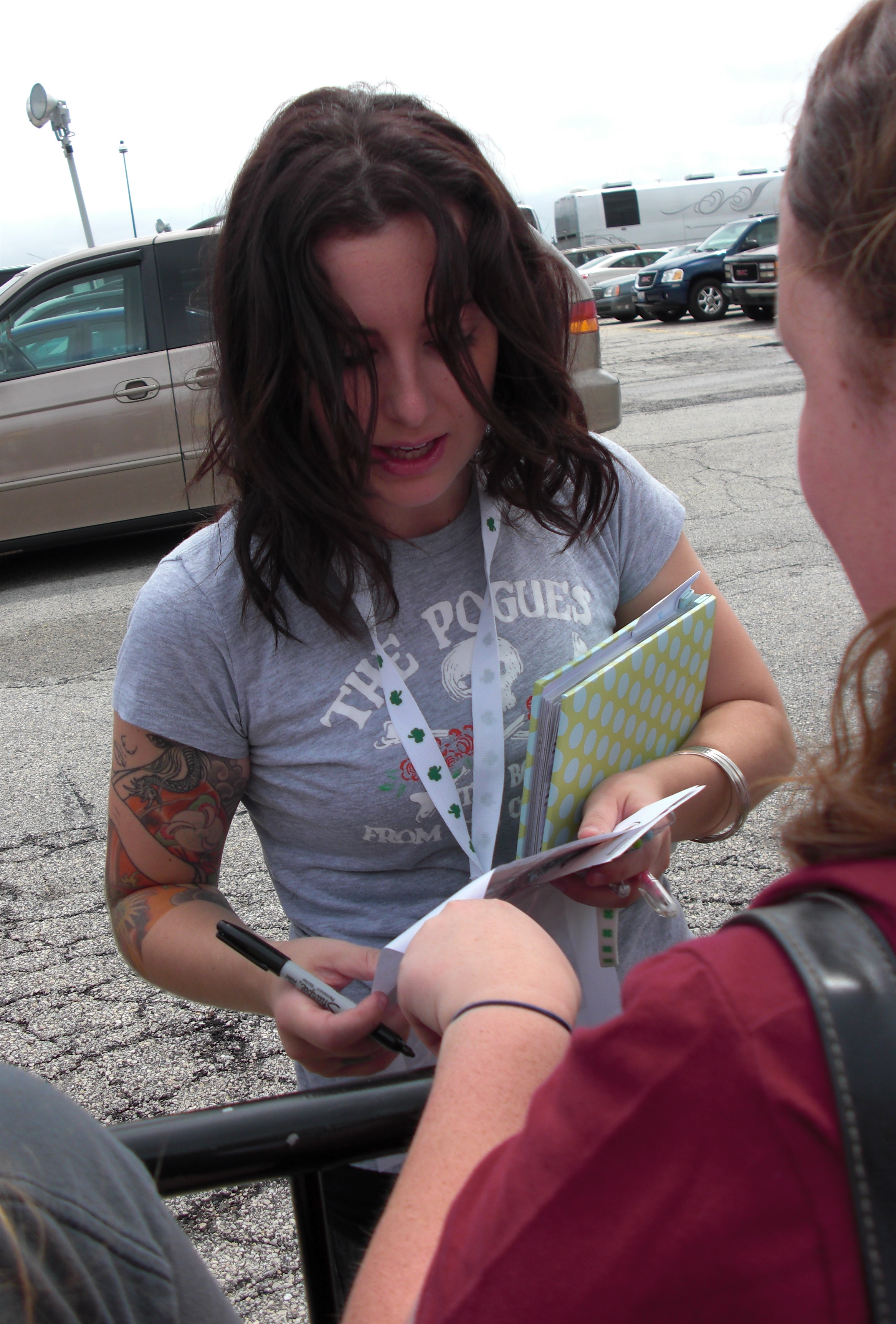 Carly Smithson signing autographs during the American Idols LIVE! Tour 2008 in Rosemont, Illinois, USA.